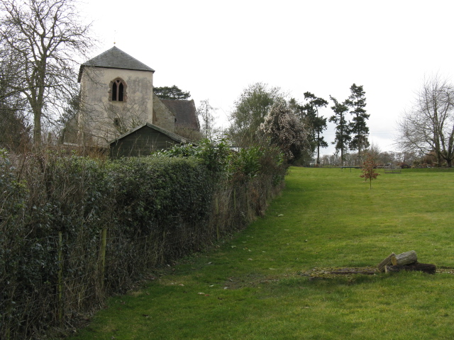 Part of a field and hedge at Richard's Castle, Herefordshire, with the tower of St Bartholomew's parish church on the left